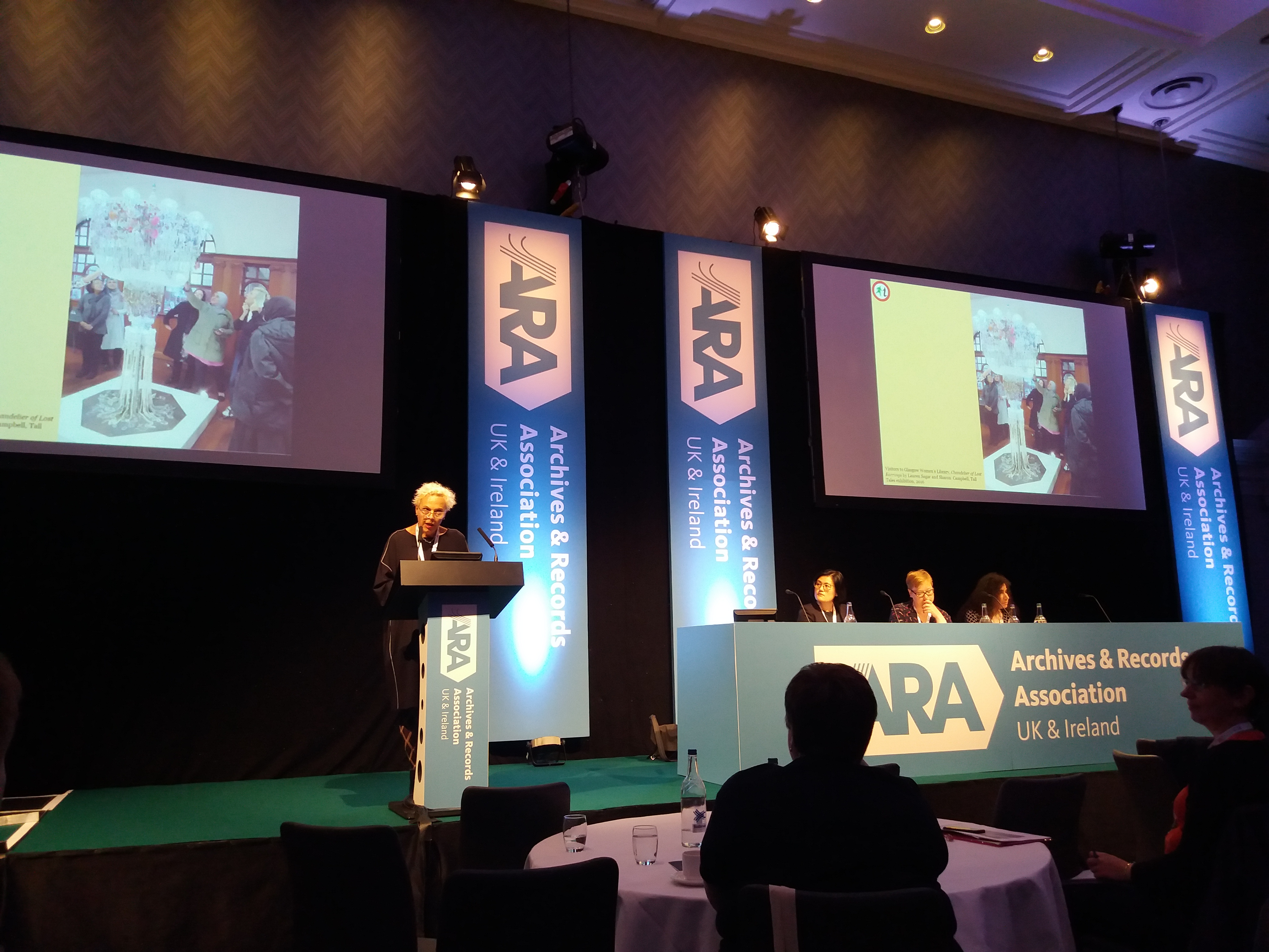 Adele Patrick (Glasgow Women's Library) presents a paper titled "Where does feminism fit in the archive? Exploring the role of ‘activist archiving’ at Glasgow Women’s Library." at the Archives and Records Association 2018 annual conference in Glasgow, UK.